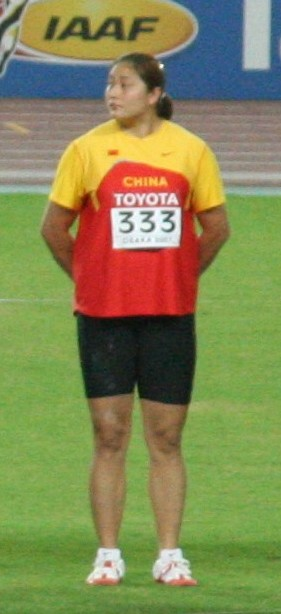 World Athletics Championships 2007 in Osaka - Sun Taifeng